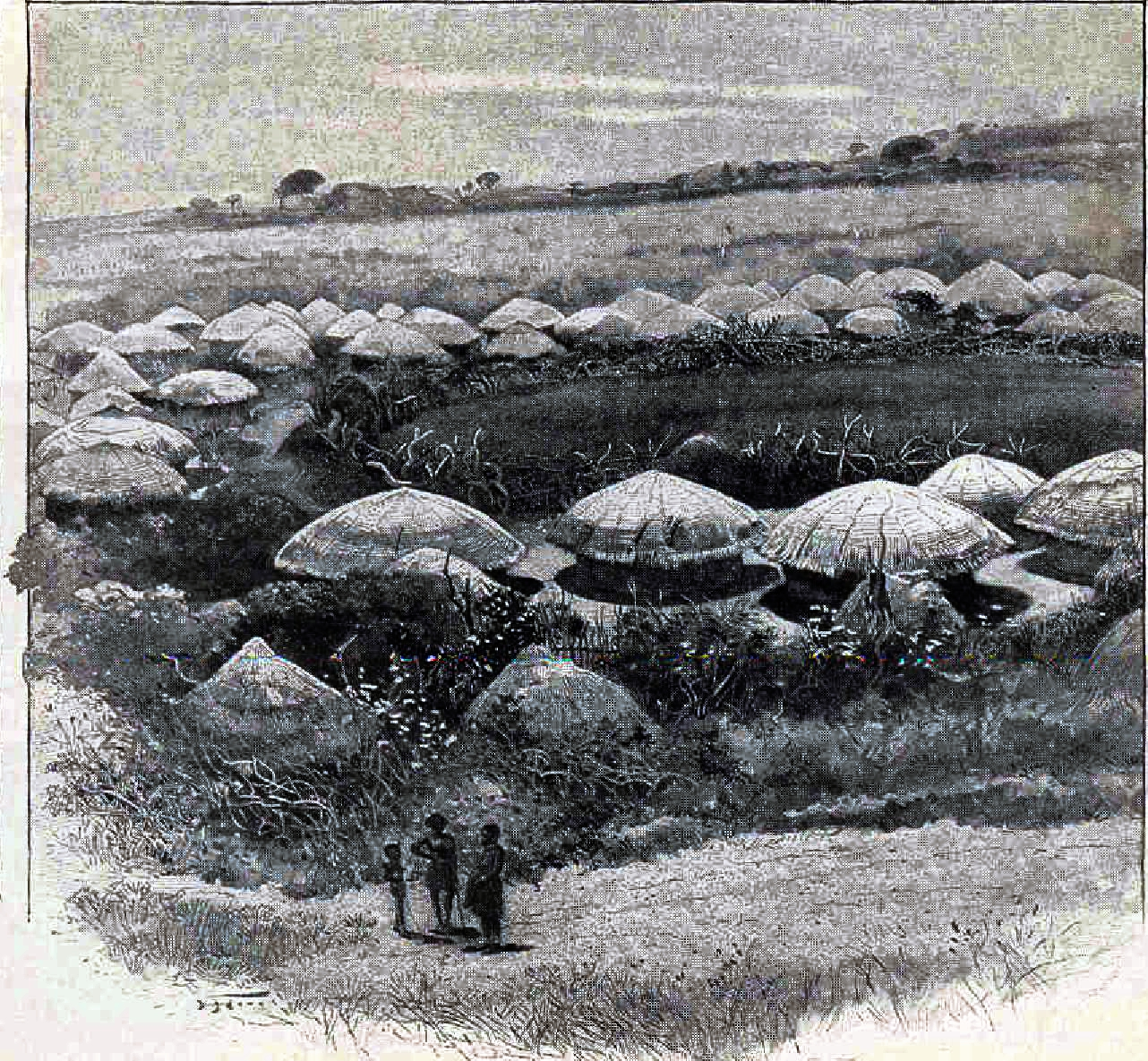 Typical Kaffir Krall near Bulawayo.